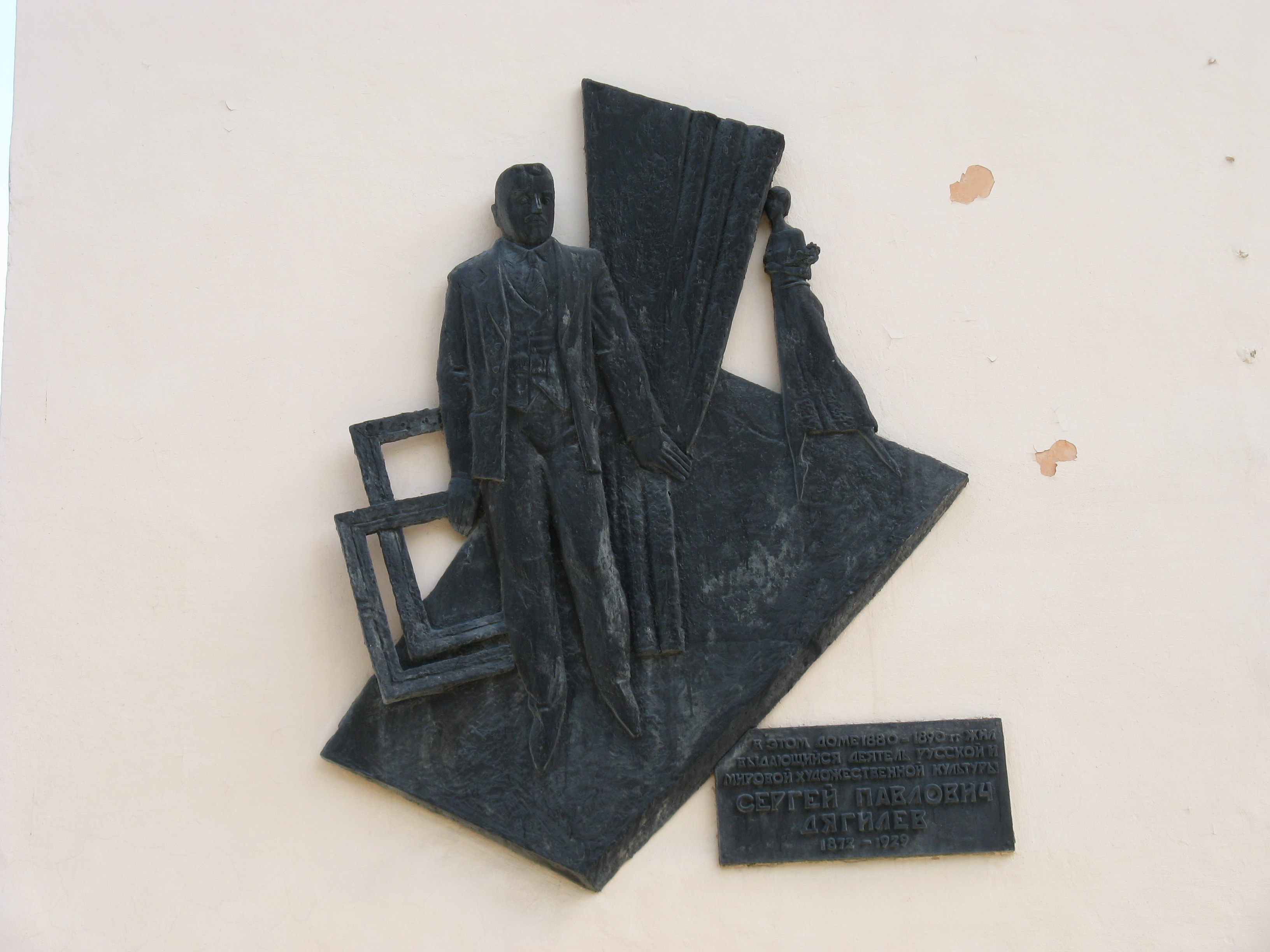 Sergei Diaghilev's Plaque on Diaghilev's House in Perm Мемориальная доска Сергея Дягилева на доме Дягилева в Перми